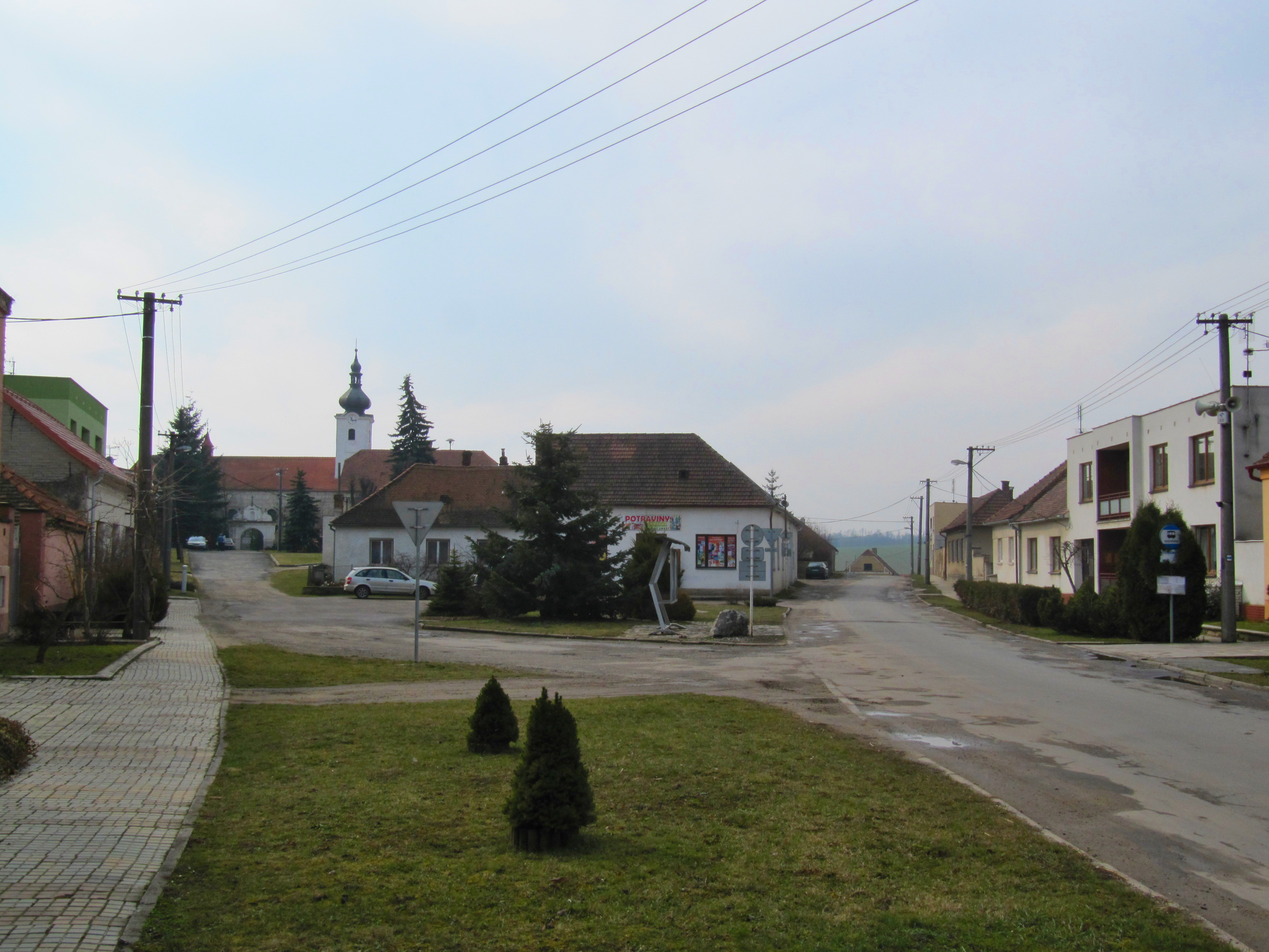 Olbramkostel, Znojmo District, Czech Republic. Church of the Assumption.